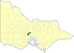 Location of the Shire of Kyneton within Victoria.